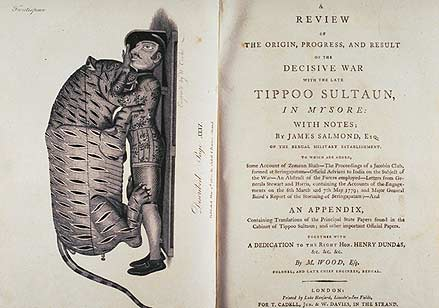 Front view of book "A Review of the Origin, Progress and Result, of the Late Decisive War in Mysore with Notes" by James Salmond London, 1800. Taken from this image on this webpage - 2.4 Tippoo's Tiger: Frontispiece - on the website "The Tiger and the Thistle"